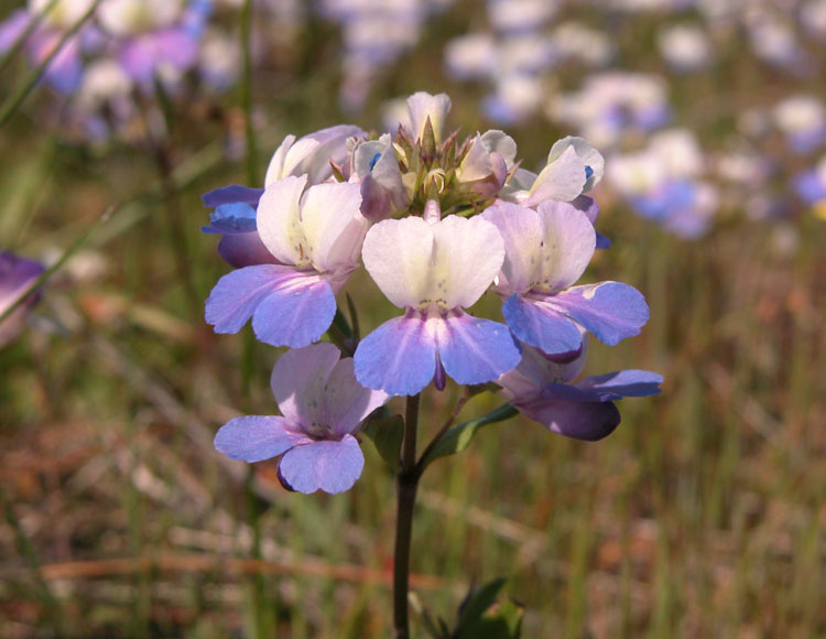 Collinsia grandiflora at Upper Table Rock, southern Oregon, US